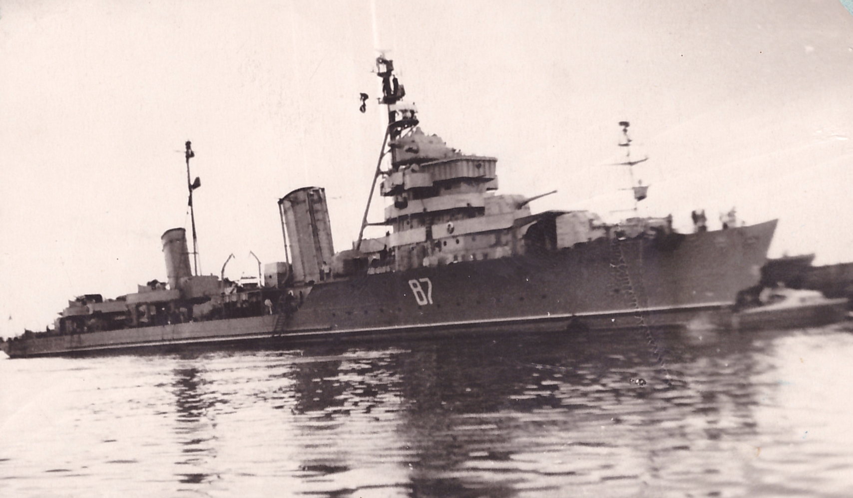 Photo from the archive of Yury Rakitin, the sailor on the ship in 1954-1956